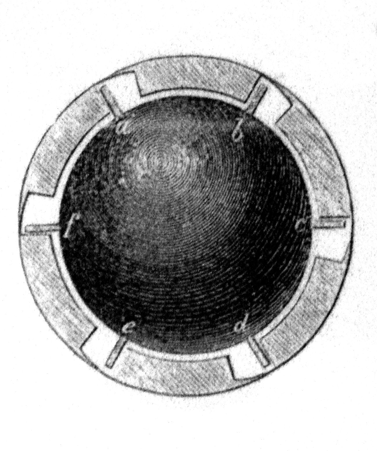 Cannonball_equiped_with_winglets_for_rifled_cannons_circa_1860.